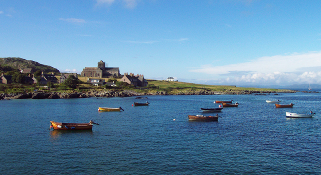 Sound of Iona. Sound of Iona from the Fionnphort to Iona Ferry. The abbey on Iona is in the background.